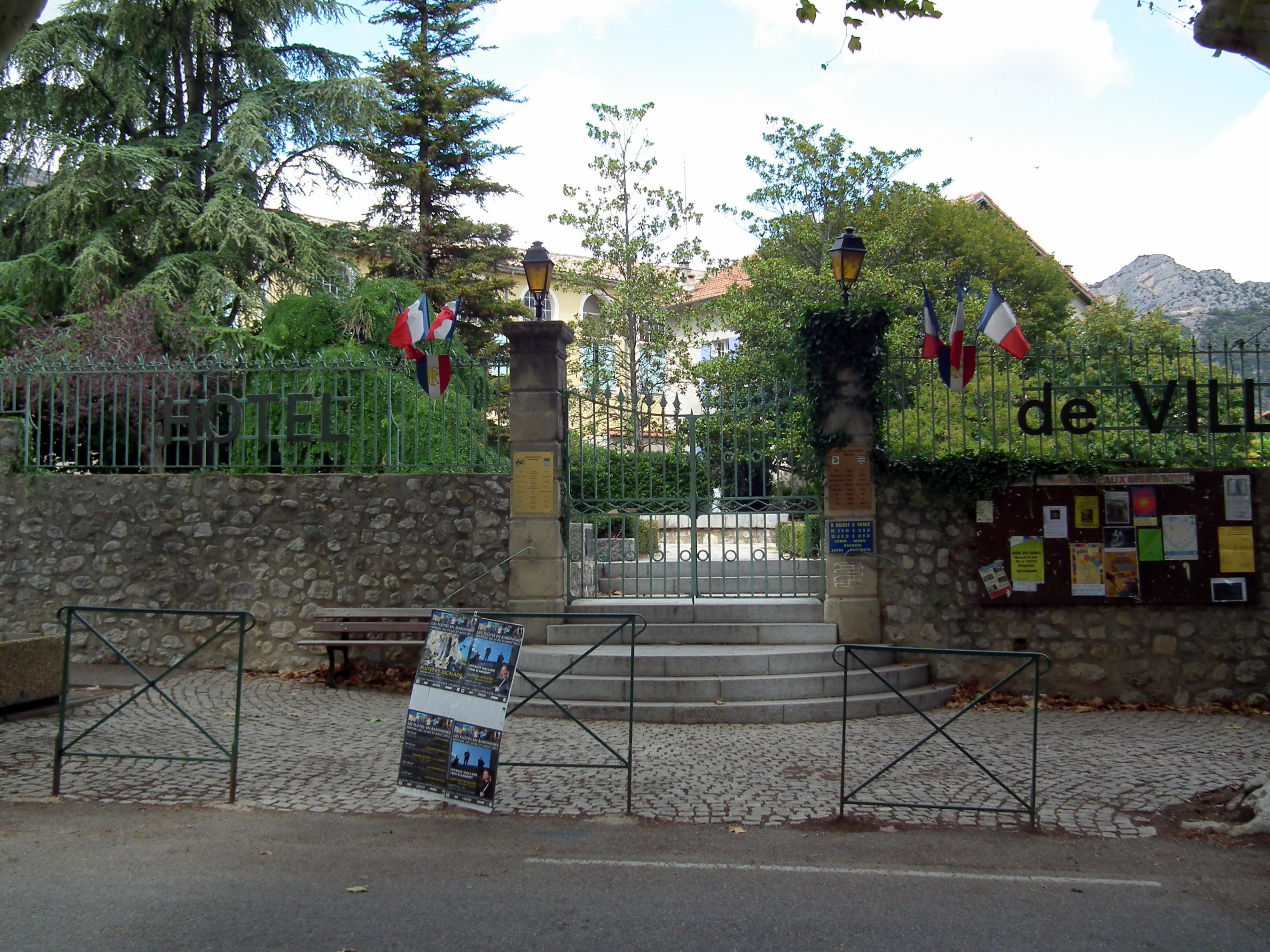 Town hall of Buis-les-Baronnies - Drôme - France